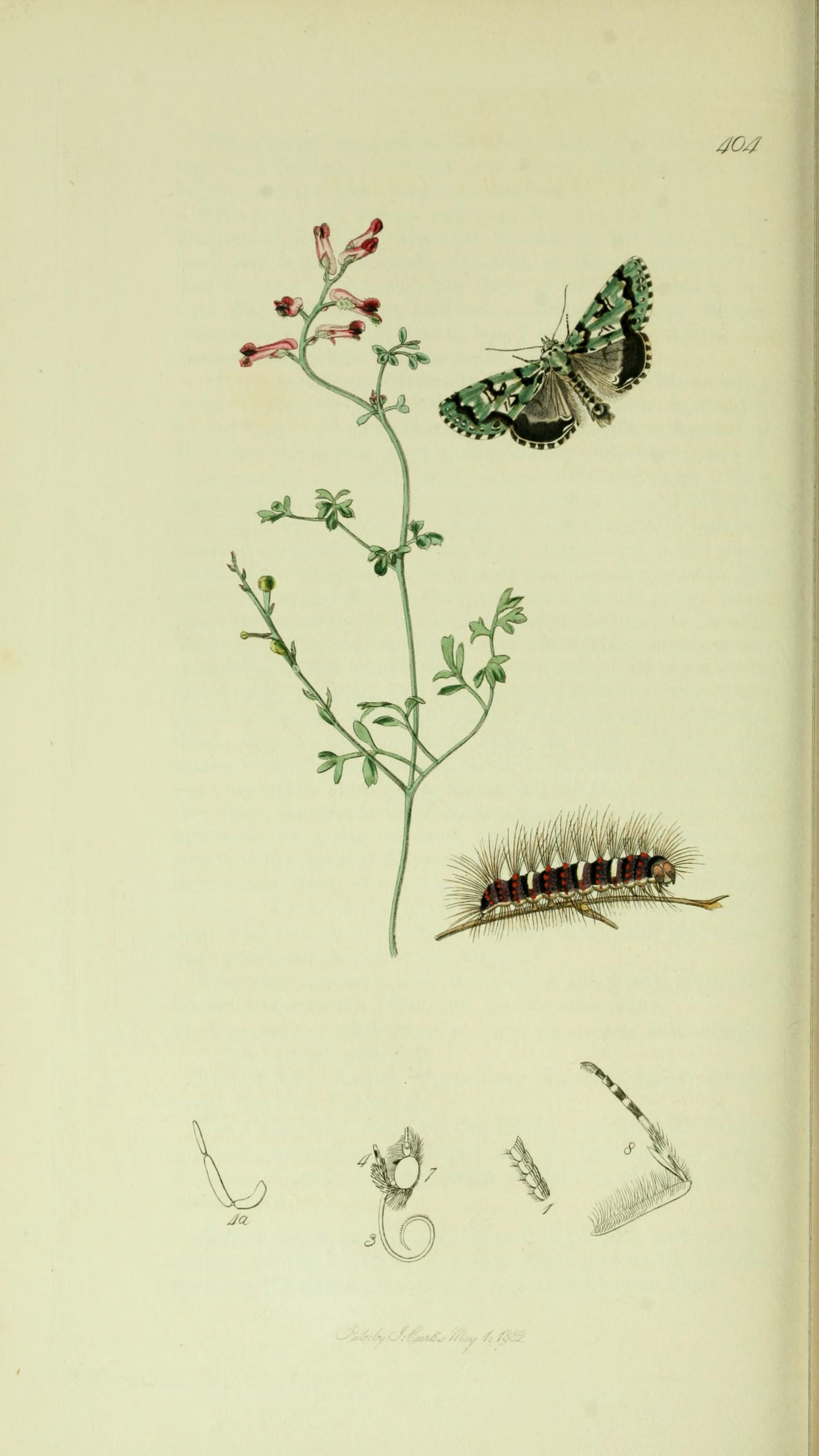 An illustration from British Entomology by John Curtis. Diphthera orion or Moma alpium (Scarce Merveille-du-jour).